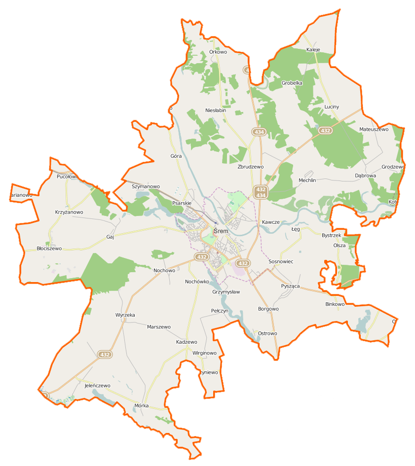 Map of Gmina Śrem, Poland This map of Śrem (gmina) was created from OpenStreetMap project data, collected by the community. This map may be incomplete, and may contain errors. Don't rely solely on it for navigation.